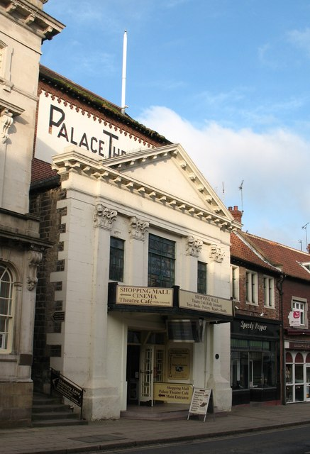 Former Corn Exchange, Malton The classical style front of this building dates from 1845 when it was built as the Corn Exchange. However it never appears to have fulfilled its original role, being too far from the livestock market. In 1914 it became the Exchange Cinema and was improved and upgraded as the Palace Theatre cinema in the 1930's. After a period of decline and eventual closure it has found a new life as a small shopping arcade with cinema above.